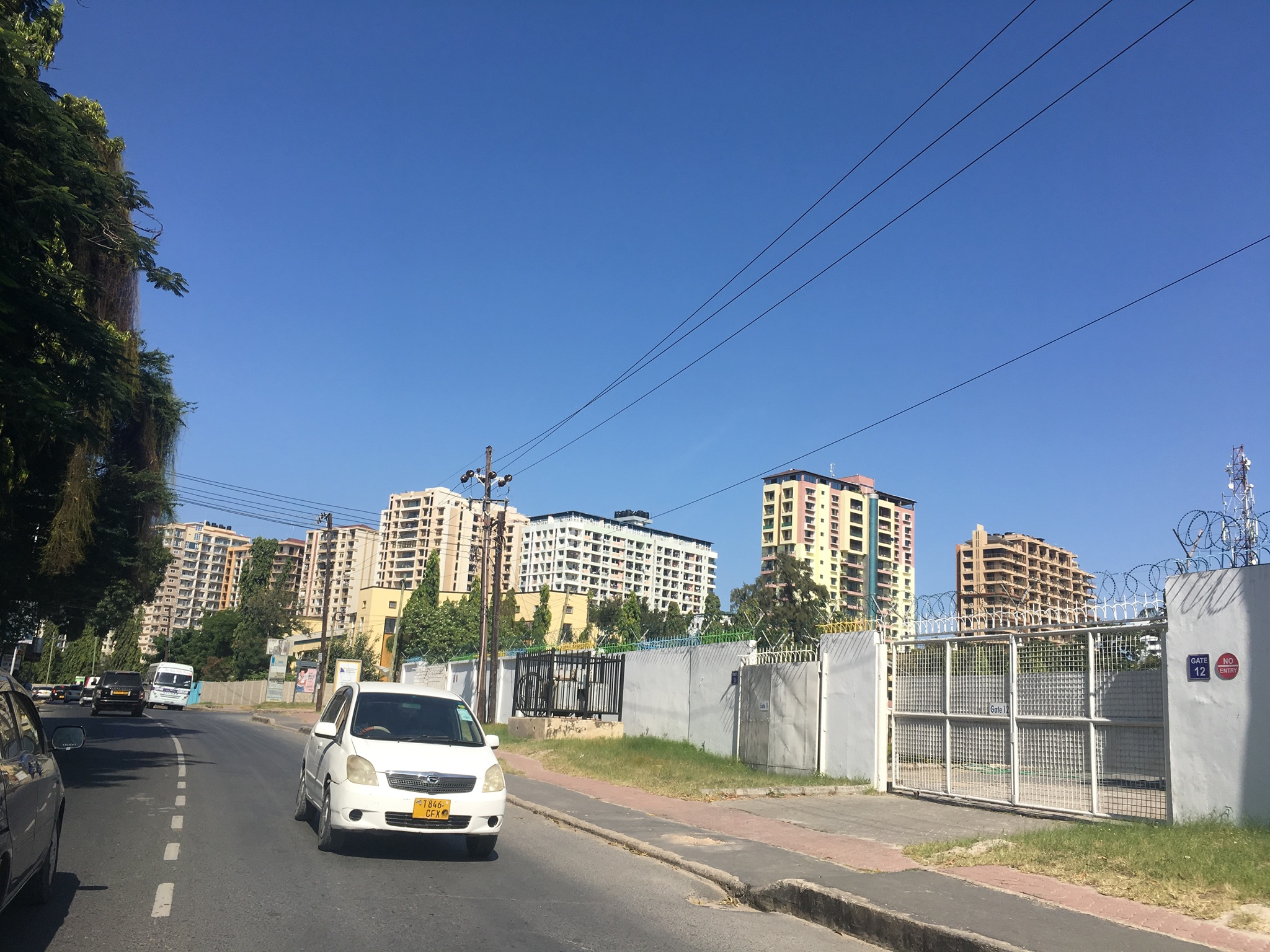 Upanga West